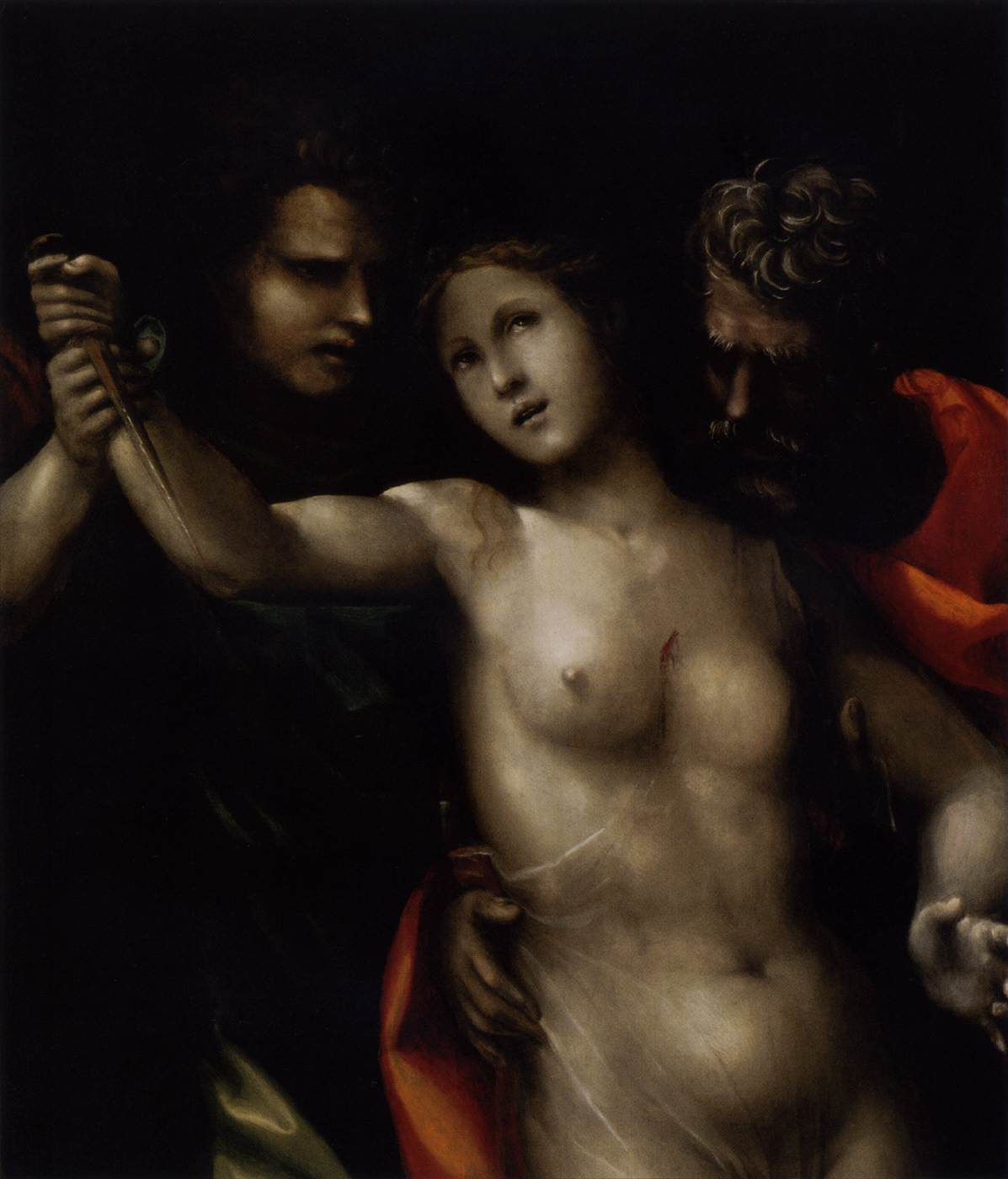 Death of Lucretialabel QS:Lde,"Der Tod Lucretias"label QS:Len,"Death of Lucretia"